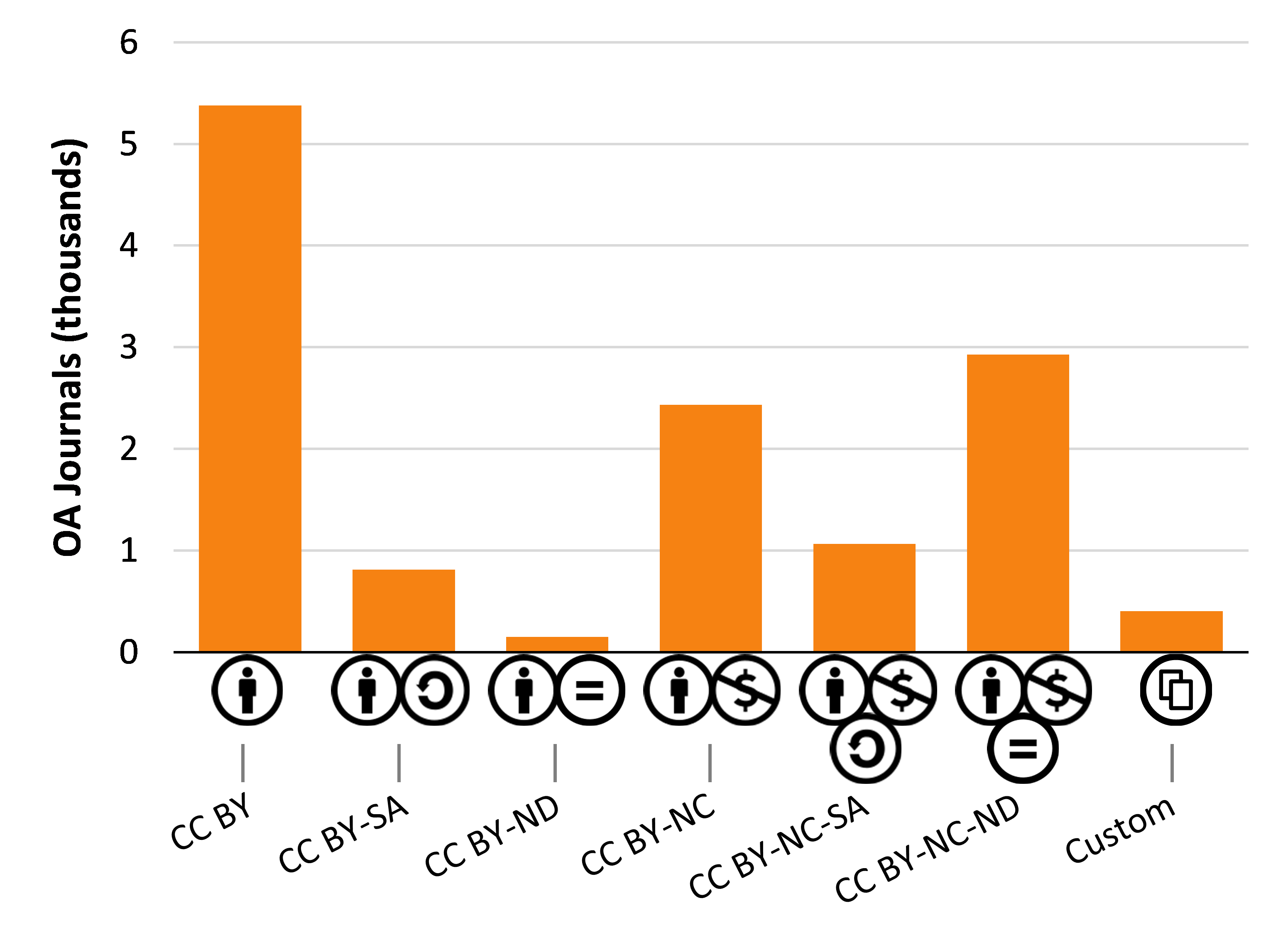 Usage of different open access licensees in 13170 DOAJ (2019). Ref